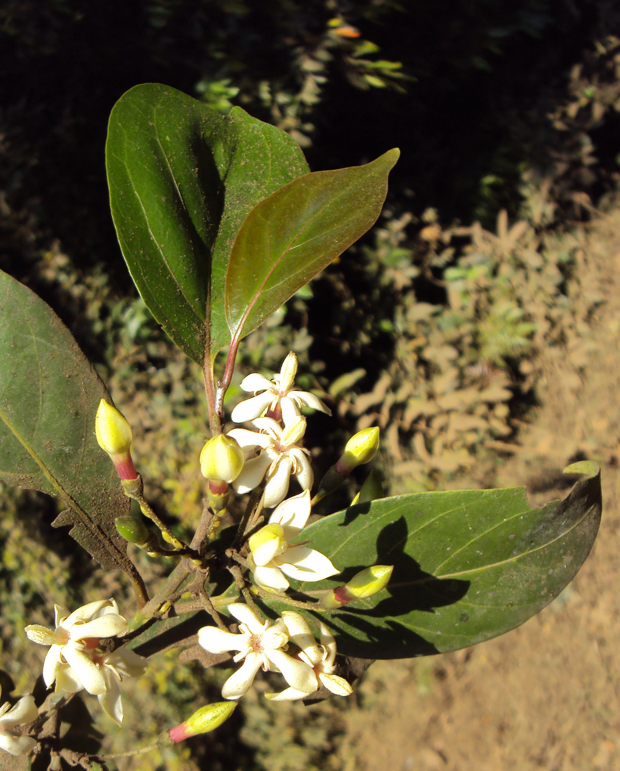 Oxyceros rugulosus